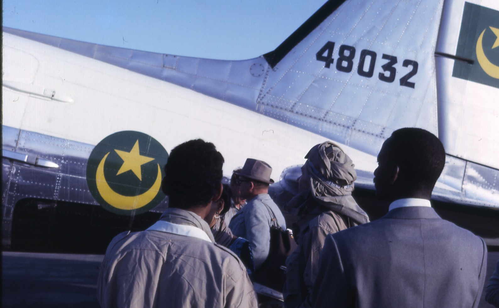 Mauritanian Air Force plane in the Sahara Desert, Mauritania, 1967